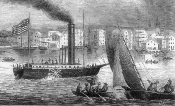 Image cropped Clermont illustration - Robert Fulton from Project Gutenberg eText 15161.jpg From